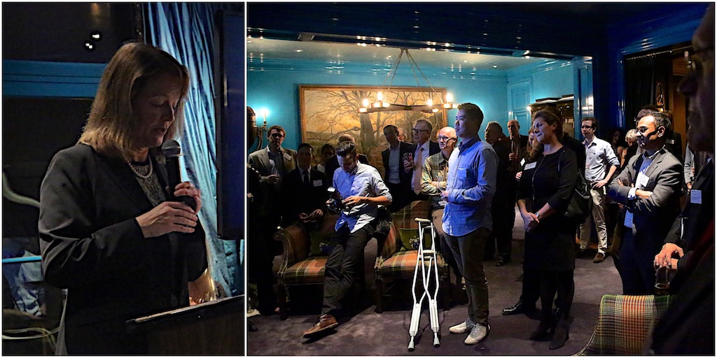 Professor Alice Gast - President, Imperial College (IMG_1295 14)